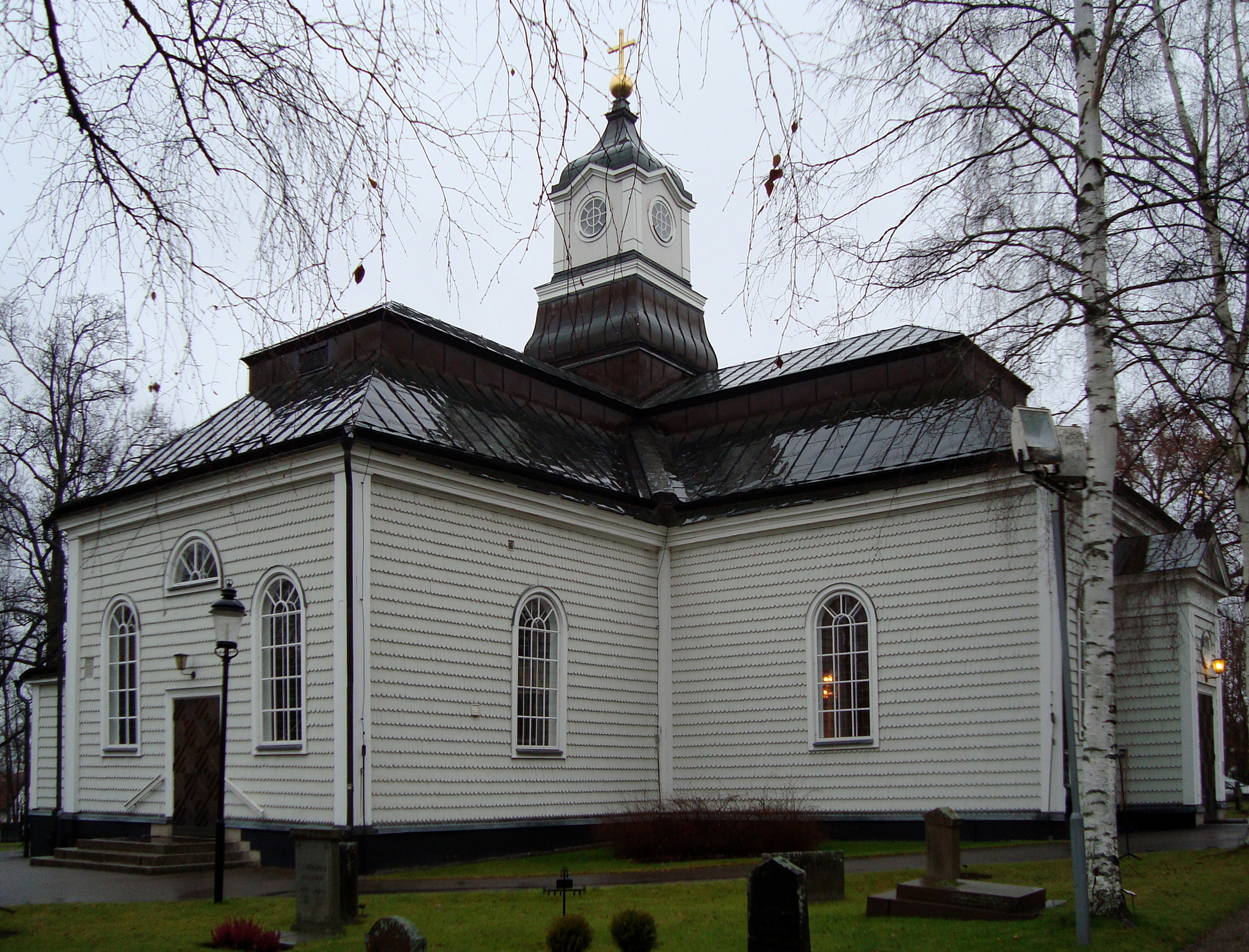 Ludvika Ulrica church, Ludvika, Sweden